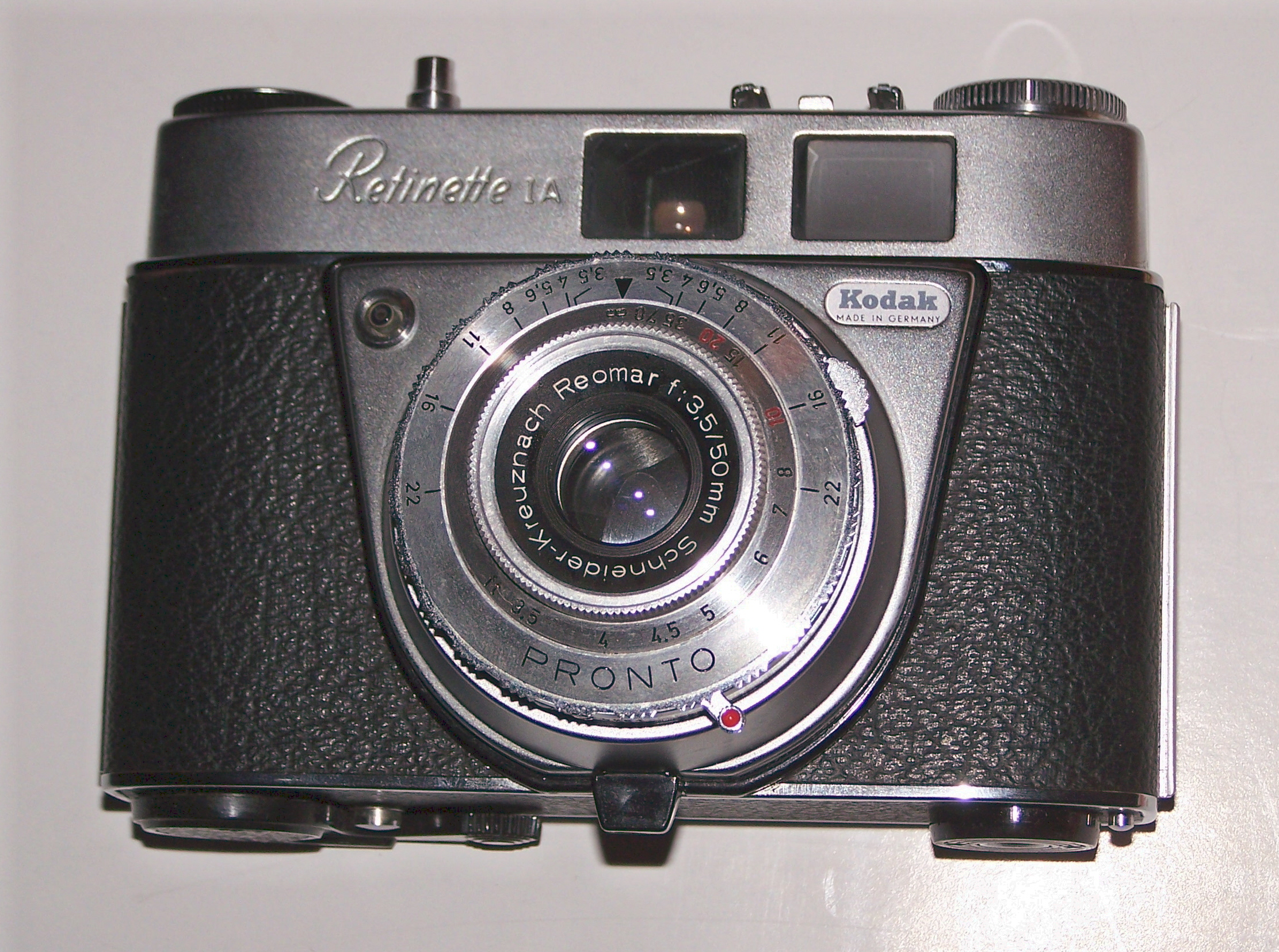 Please see filename above